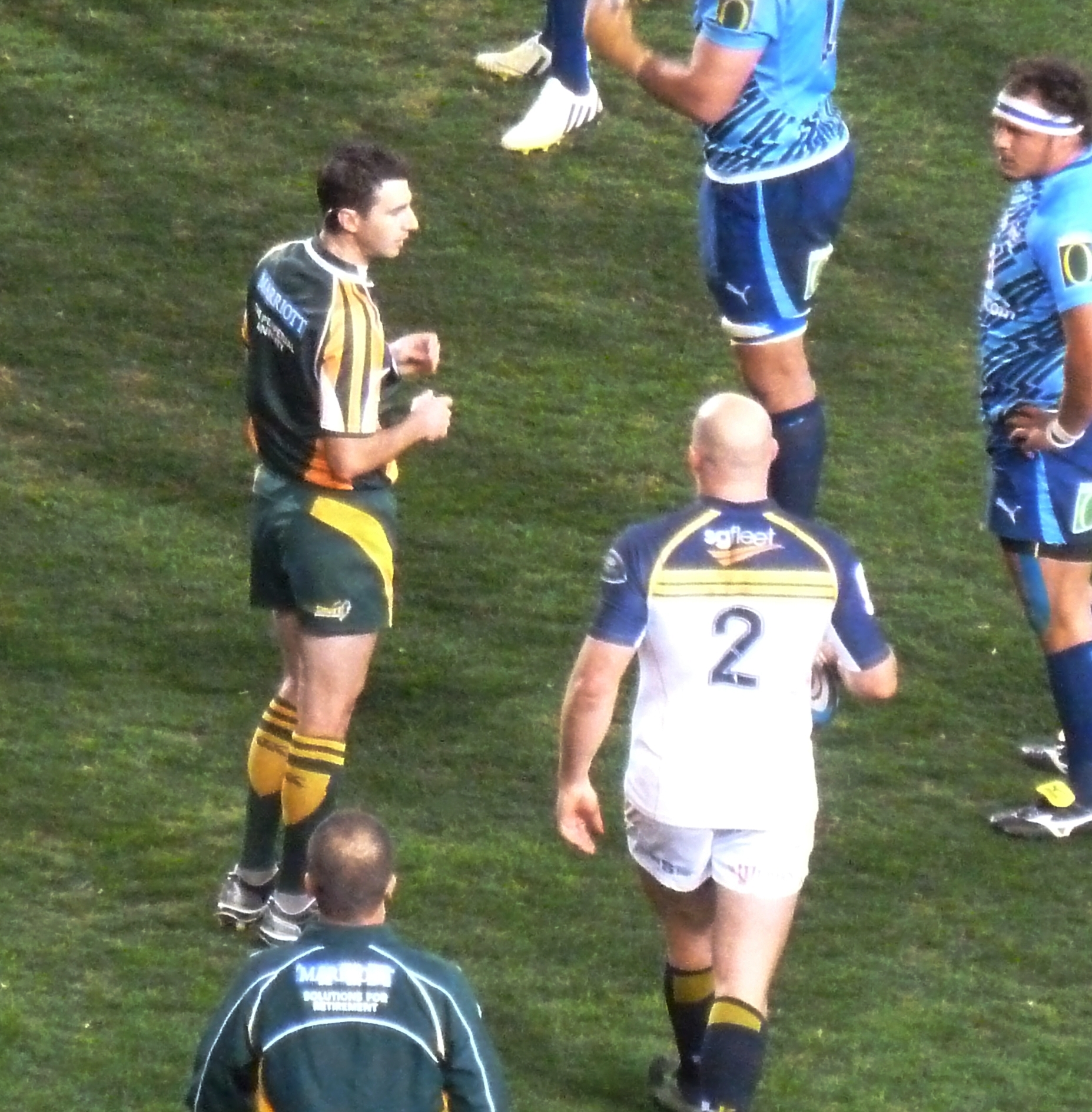 Craig Joubert refereeing the Brumbies vs Bulls 2013 Super Rugby semi-final at Loftus, Pretoria. The Brumbies would win the game 26:23.